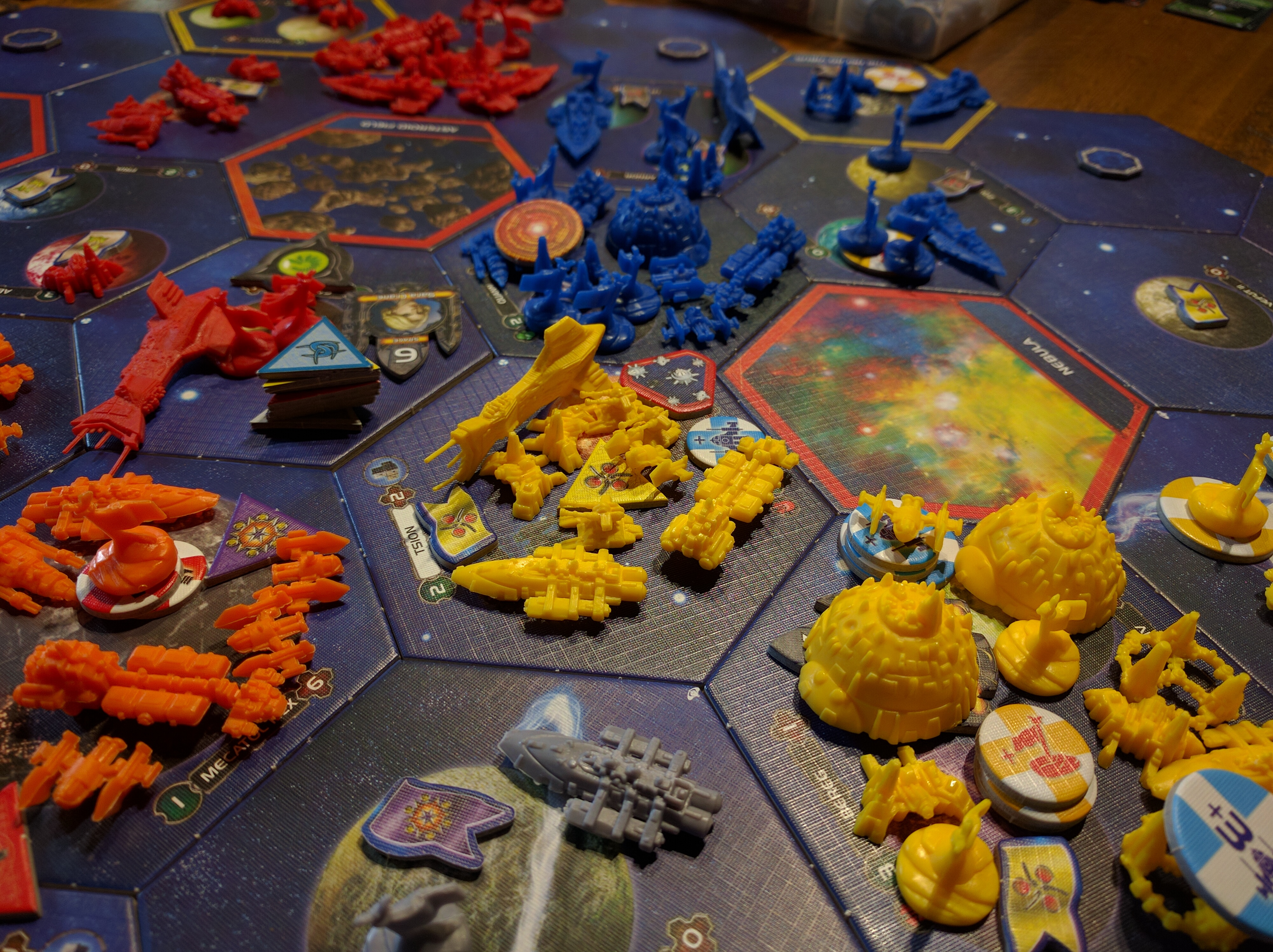 Shot of Twilight Imperium 3rd edition being played